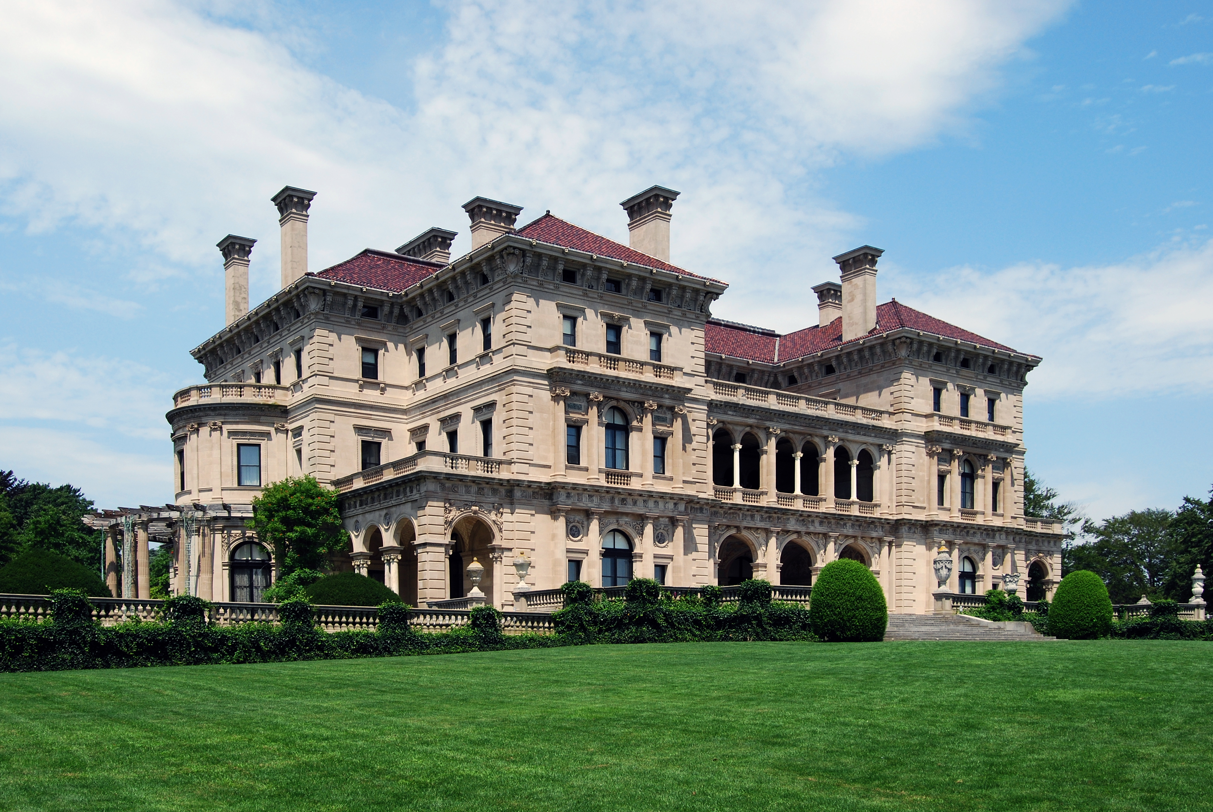 The Breakers, the summer home of Cornelius Vanderbilt II, located in Newport, Rhode Island, United States. It was built in 1893, added to the National Register of Historic Places in 1971, and designated a National Historic Landmark in 1994.